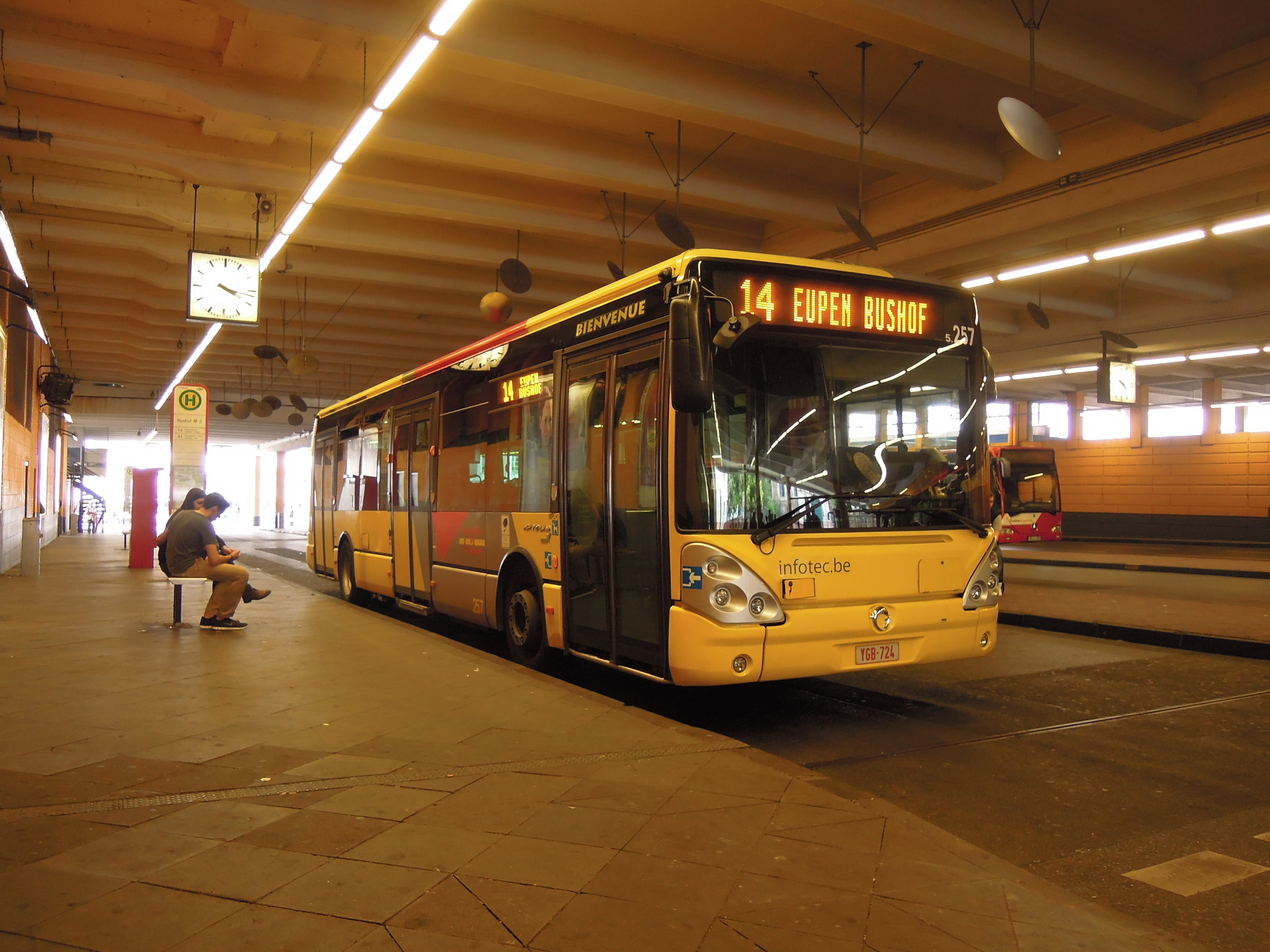 City bus in the Städteregion Aachen in the summer of 2014.